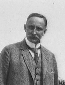 Portrait of Karl Haushofer, Original is KarlHaushofer RudolfHess.jpg, cropped and brightened by Sozi